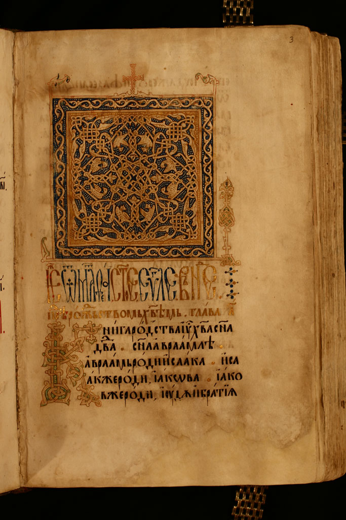 Krupnik Gospel. Title page of Matthew